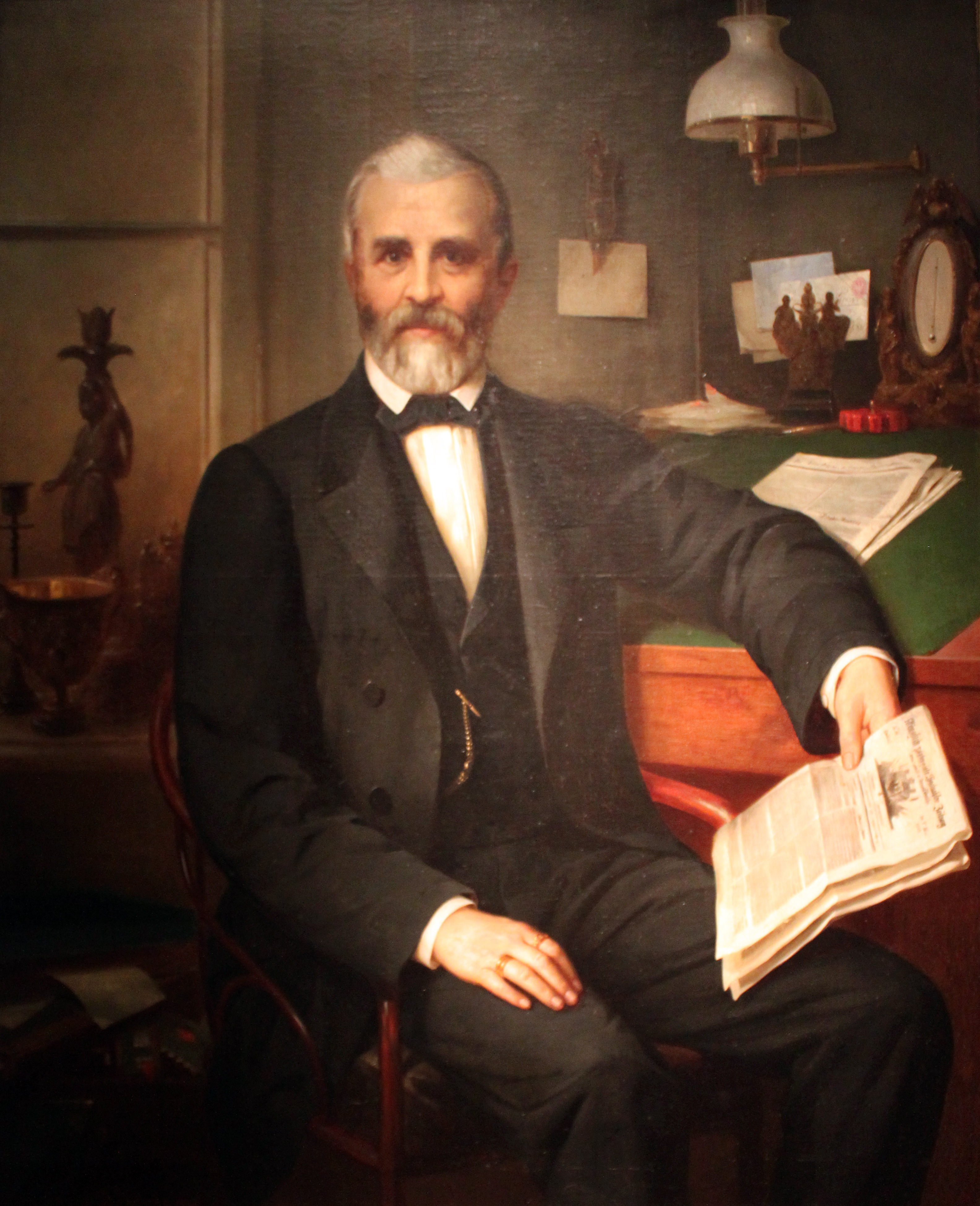 Portrait of the Berlin factory owner Albert Meves